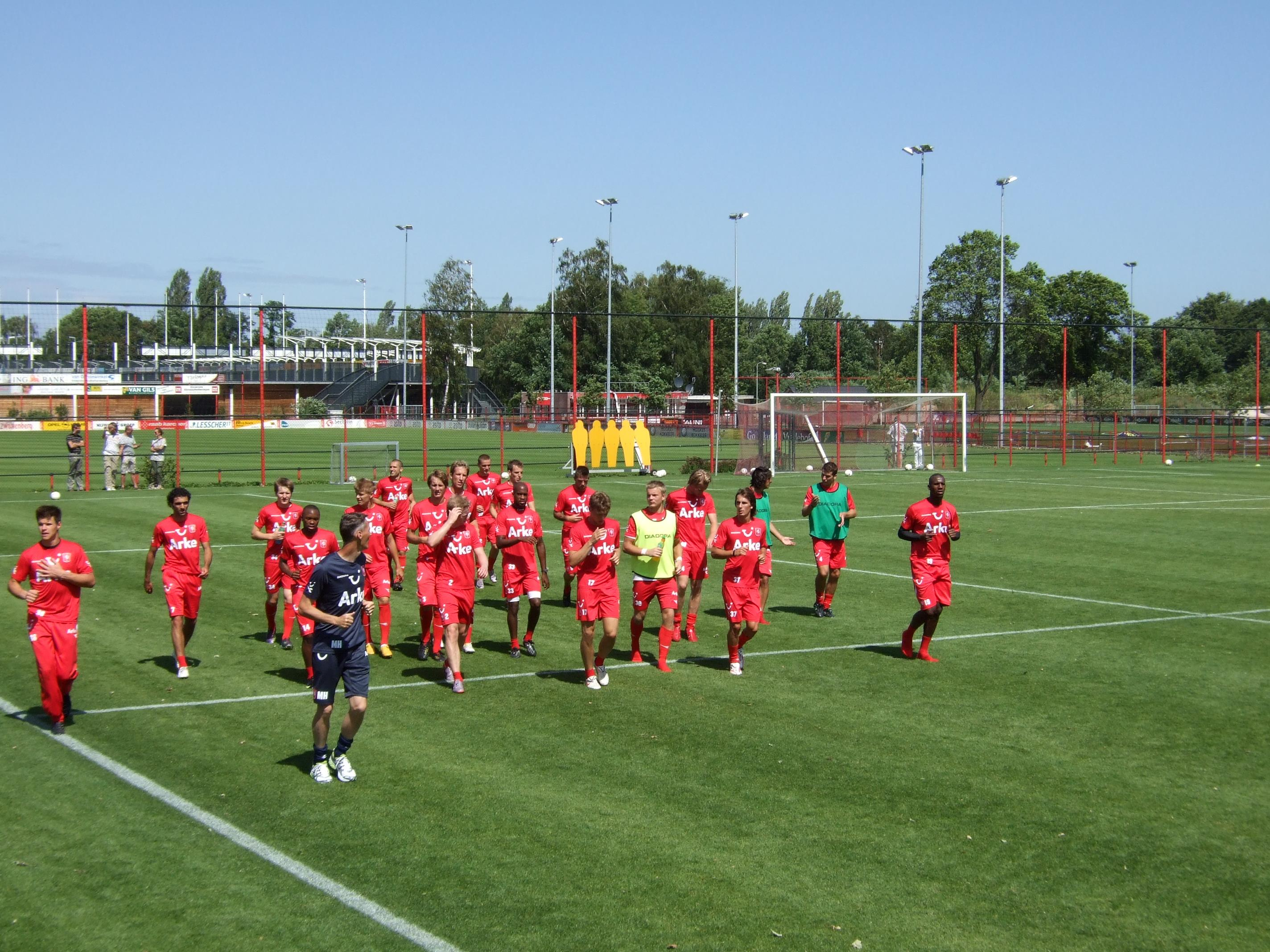 Training FC Twente